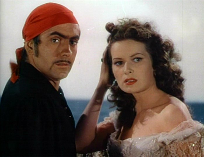 Tyrone Power and Maureen O'Hara in a screenshot from the trailer for the film The Black Swan.